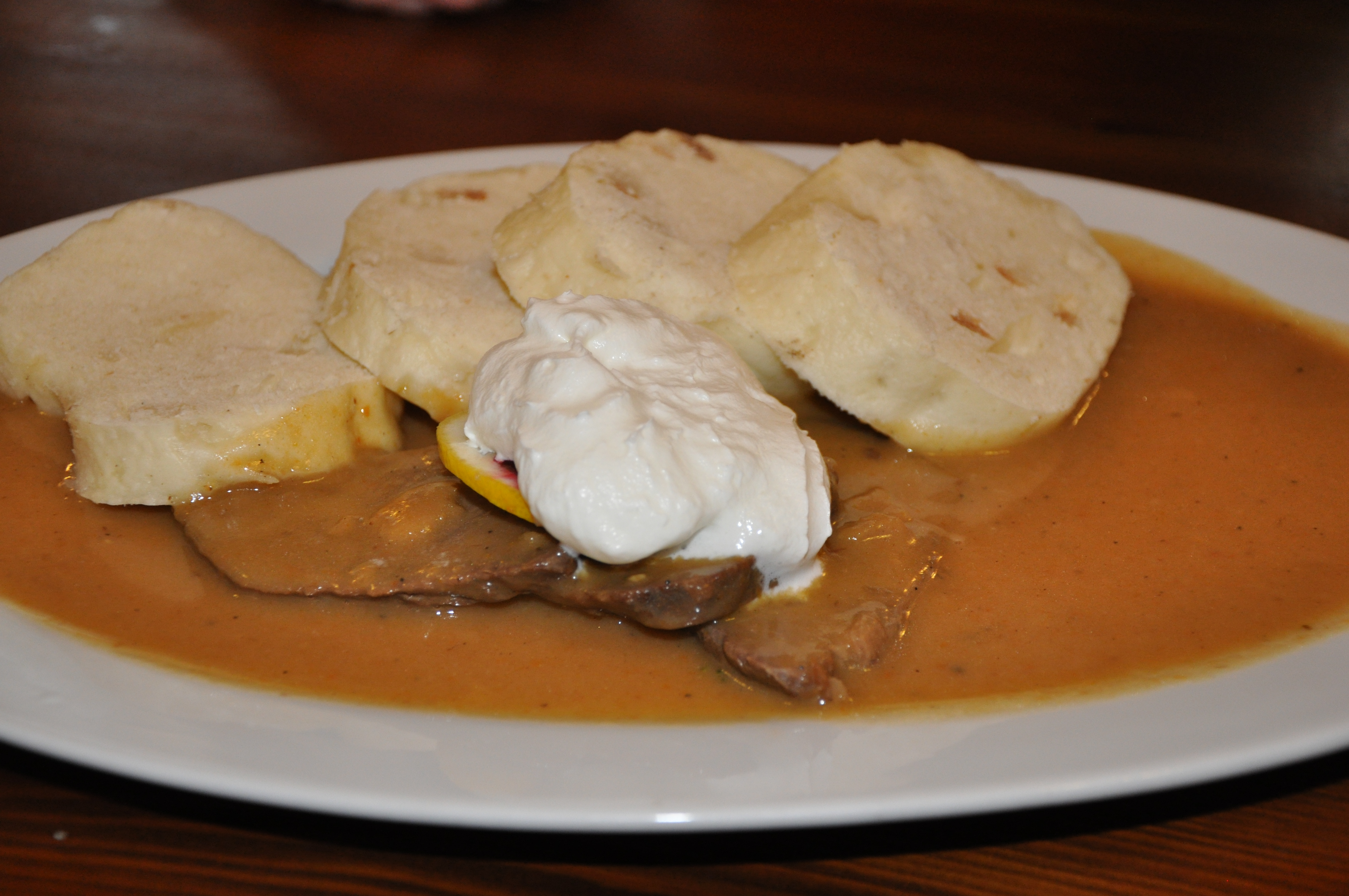 Svickova pot roast with flour dumplings